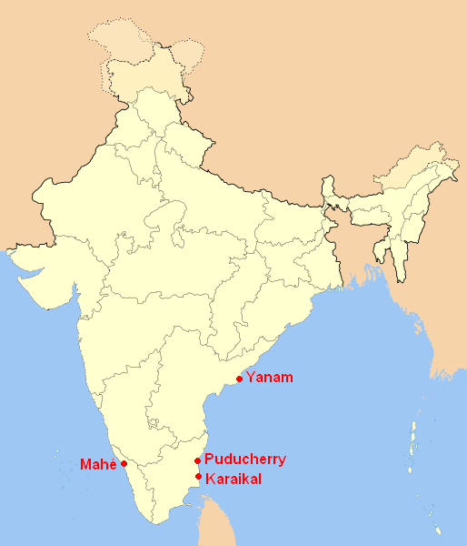 locator map of Puducherry (union territory of India); self-made using Image:India-locator-map-blank.svg Lagekarte von Puducherry (indisches Unionsterritorium); selbst erstellt auf der Grundlage von Image:India-locator-map-blank.svg